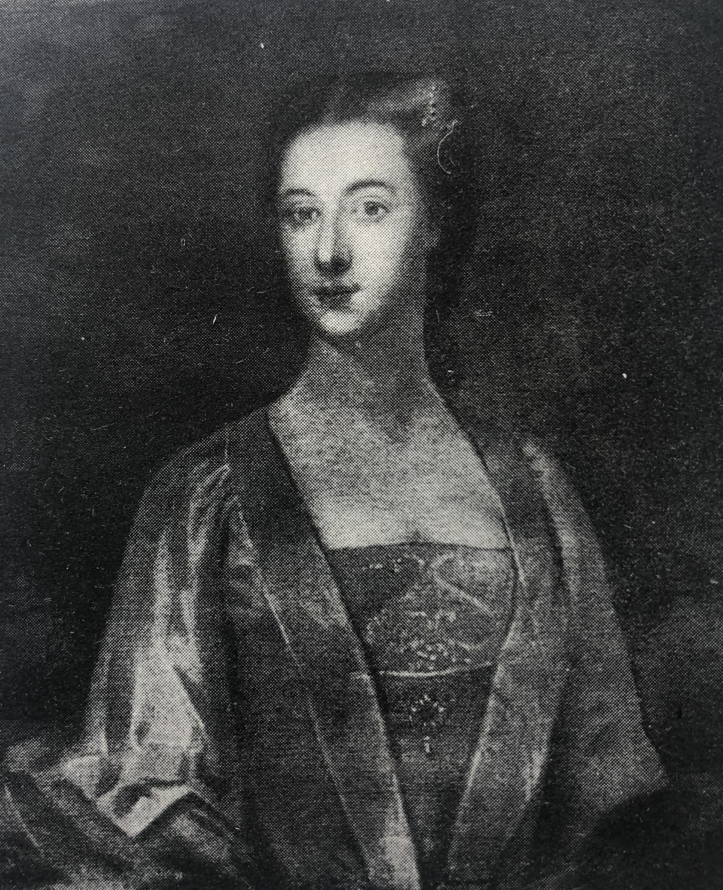 Mary Twining Portrait, from Twining, Stephen H. Two Hundred and Twenty-Five Years in the Strand, 1706-1931. London: R Twining & Co., 1931.